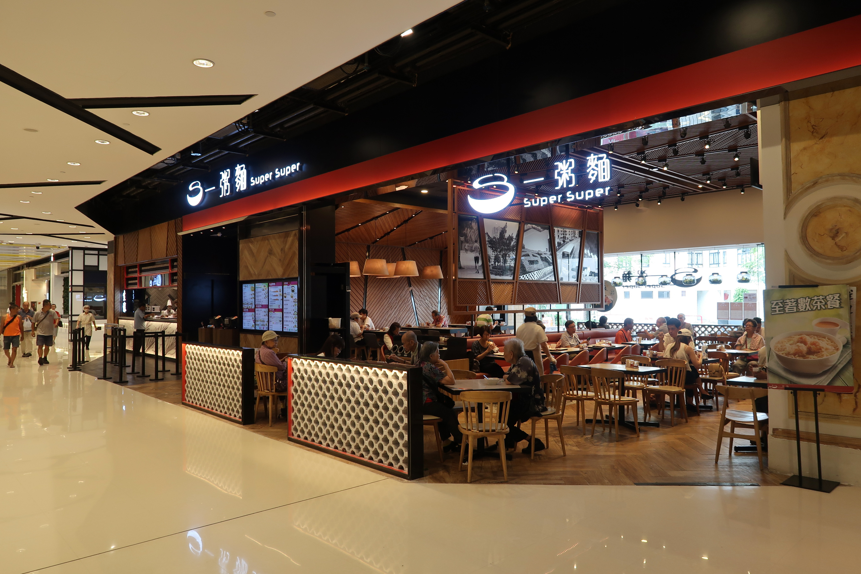 Super Super Congee & Noodle in Paradise Mall